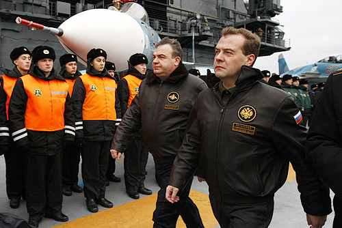 BARENTS SEA. On board the aircraft carrier Admiral Kuznetsov.